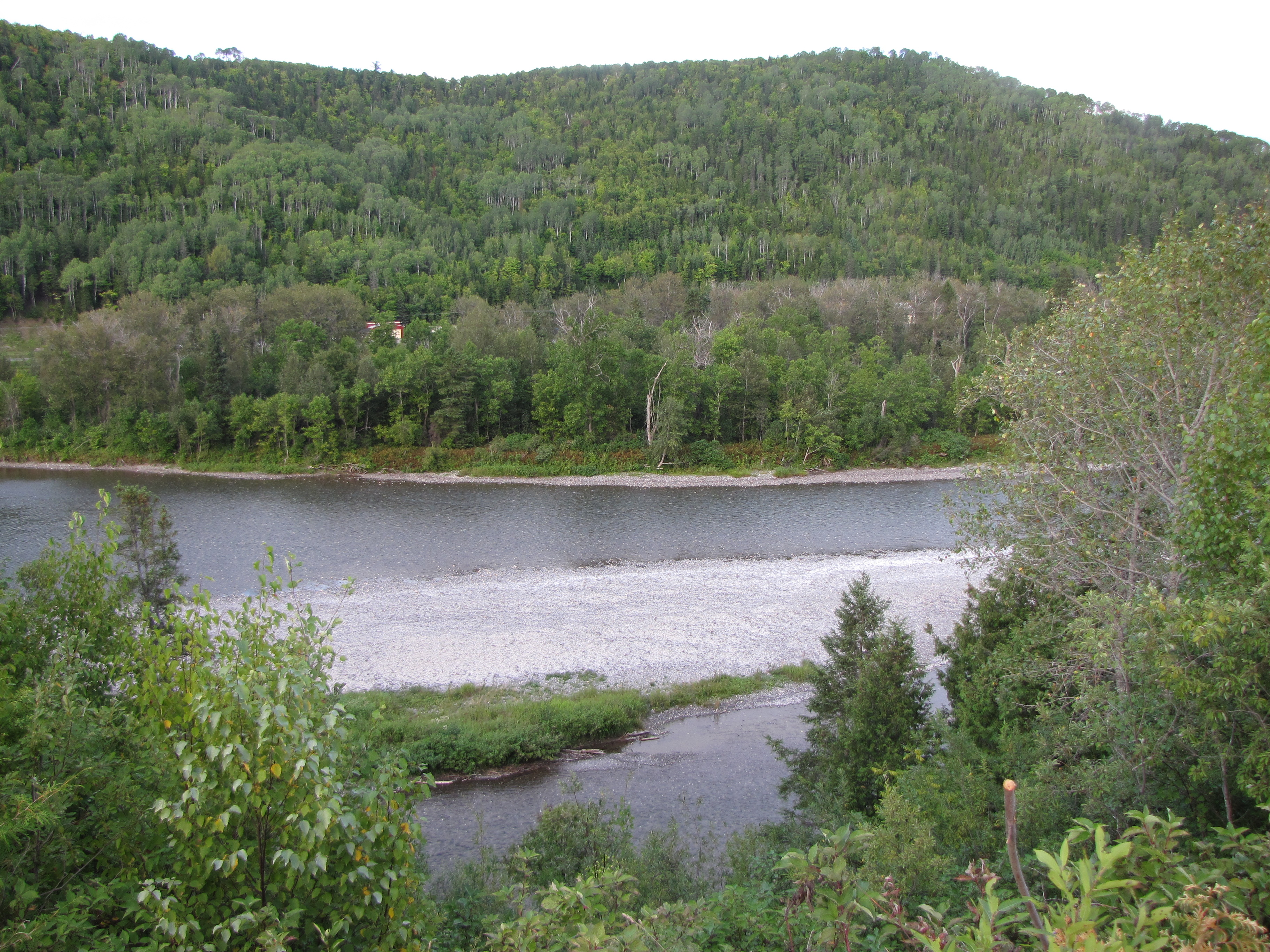 RIVIÈRE MATÉPÉDIA, À MATAPÉDIA